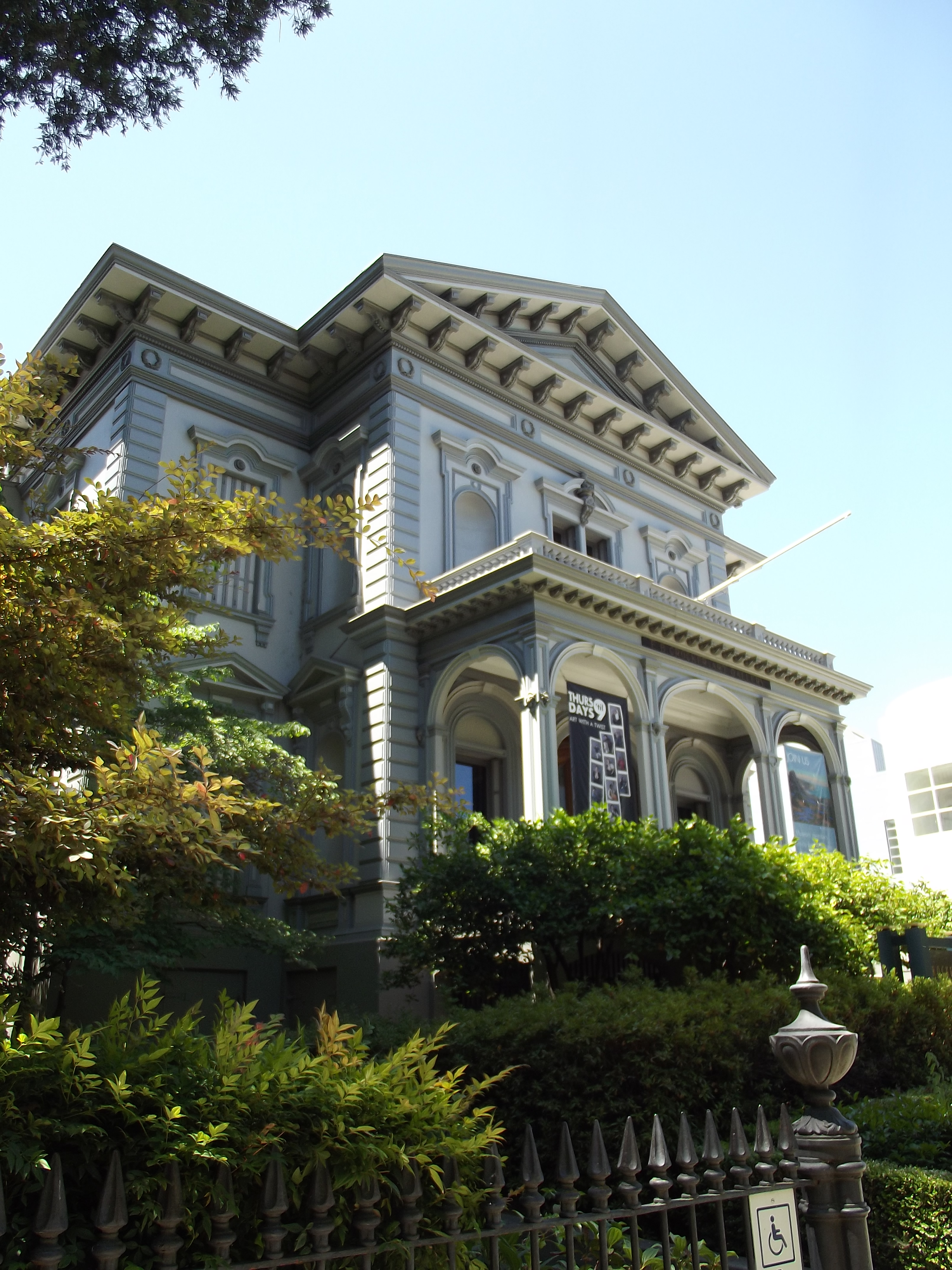 Old Main entrance to the crocker Art Museum